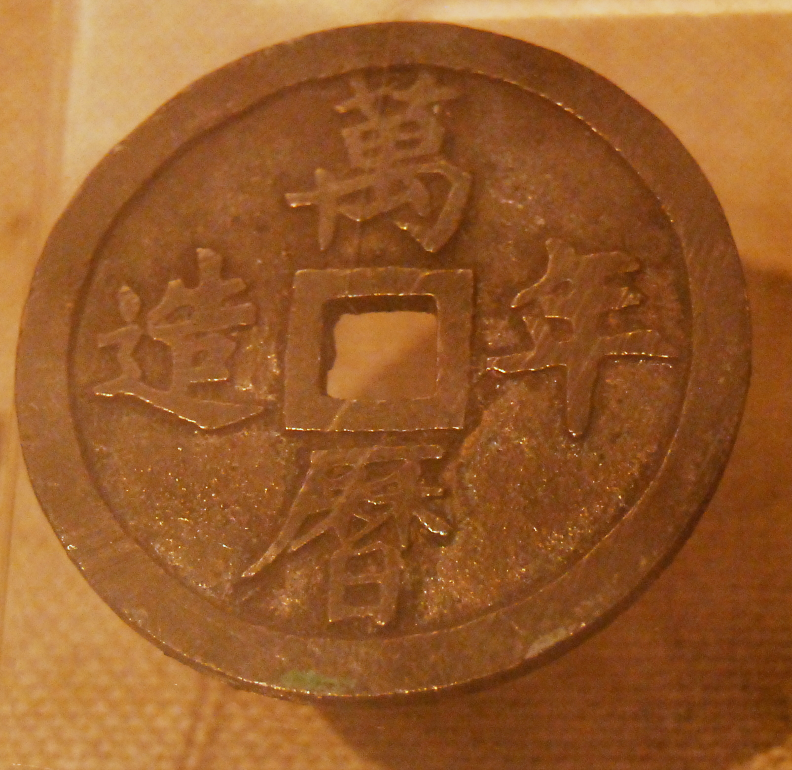 silver coin with the inscription of Wan Li Nian Zao (eight maces)